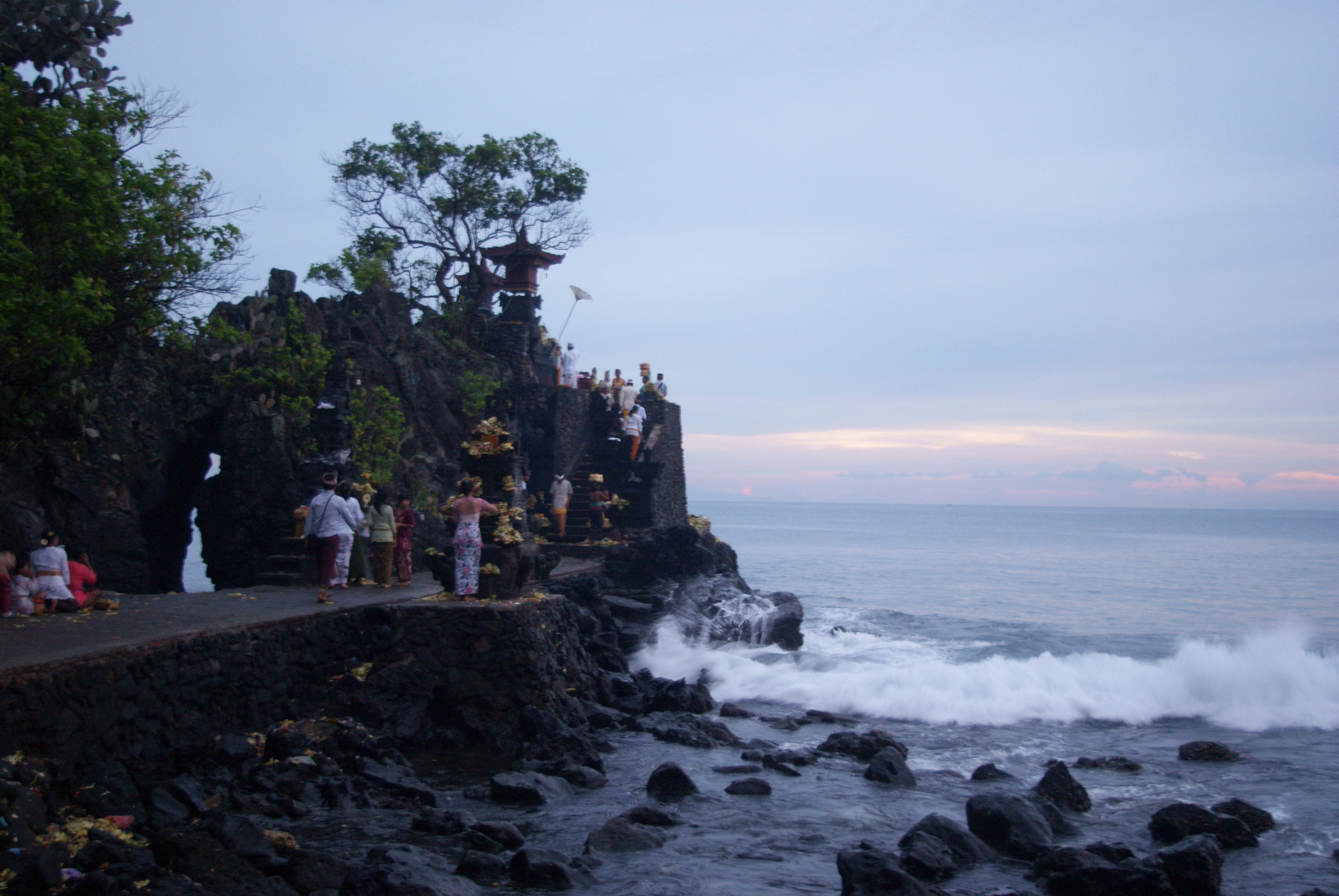 Pura Batubolong, Senggigi, Lombok, Indonesia